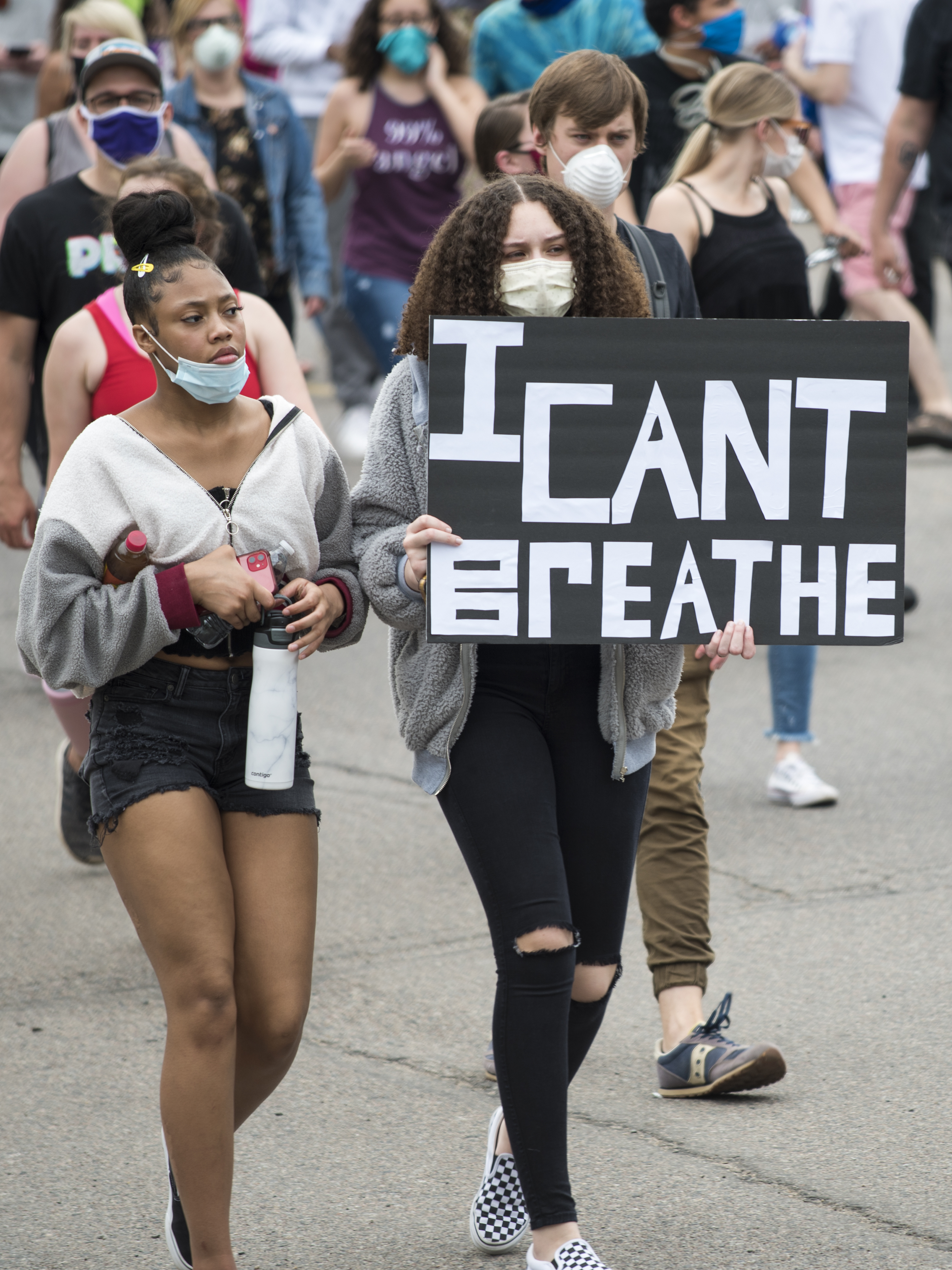 On May 26, 2020, people protested against police violence after the death of George Floyd. Focus on two protesters, one with an "I Cant Breathe" sign.